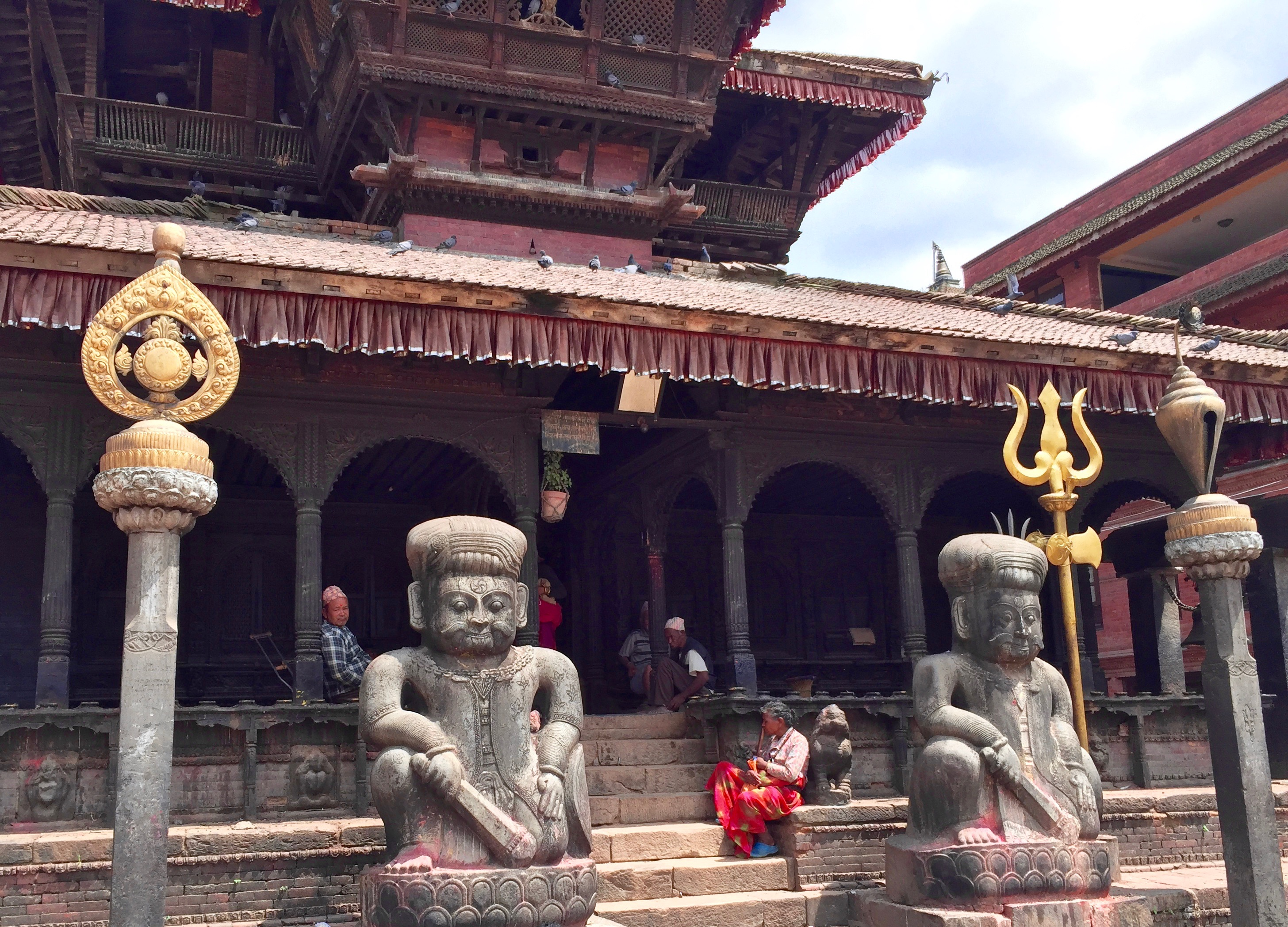 Dattatreya is a deity that merges the theology of Brahma, Vishnu and Shiva, whose iconography has three heads respectively corresponding to each. Other icons such as trishula (Shiva's trident), sankha (Vishnu's conch) etc are typically shown with him. Dattatreya is one of the patron deity of yoga. The above image is of 15th century Dattatreya temple at Bhaktapur Nepal. Near it are numerous Hindu (Advaita Vedanta) and Buddhist monasteries, as well as wooden carving called the Peacock window.